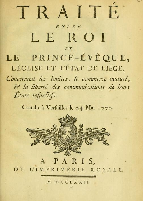 Treaty between the King and the Prince-Bishop, Church and State of Liége concerning boundaries, commerce and freedom of communication between their respective states. Frontispice page of a treaty signed in 1772 between the King of France and the Prince-Bishop of Liège to settle border issues and facilitate trade and commerce between France and Liège, an ecclesiastical principality of the Holy Roman Empire.